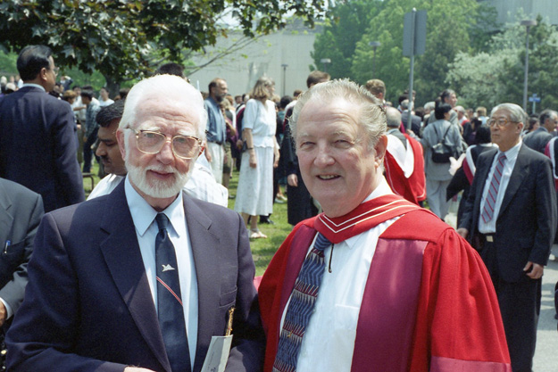 Jim Floyd with Owen Maynard at the University of Toronto in June 1996, on the occasion of the University of Toronto conferring on Owen Maynard the degree of Doctor of Engineering, honoris causa.